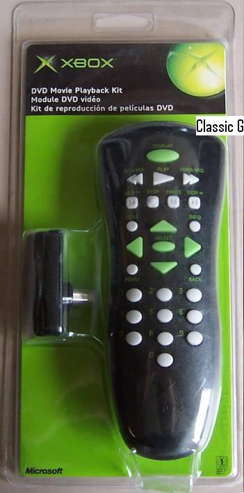 Xbox DVD Package